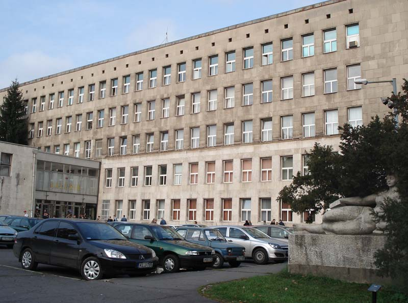 Building A/1, University of Miskolc, Hungary